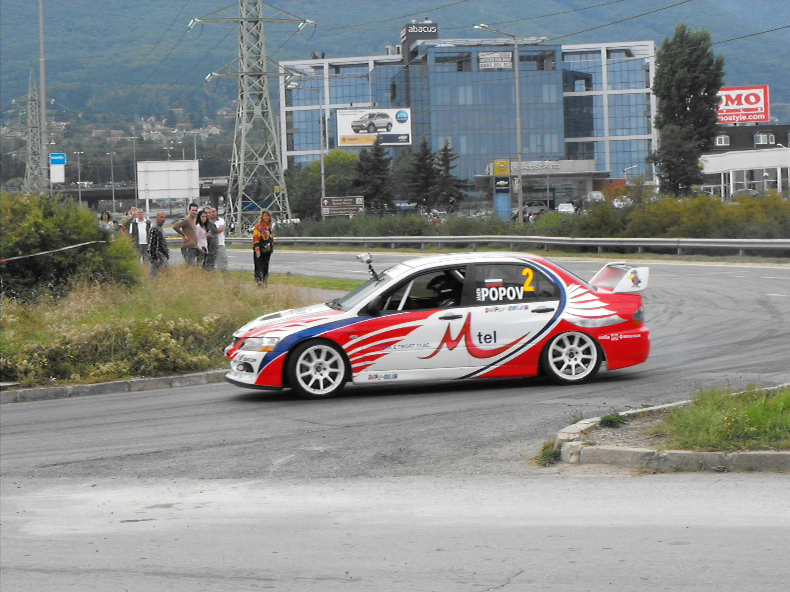 Jassen POPOV - Bulgarian racecar driver